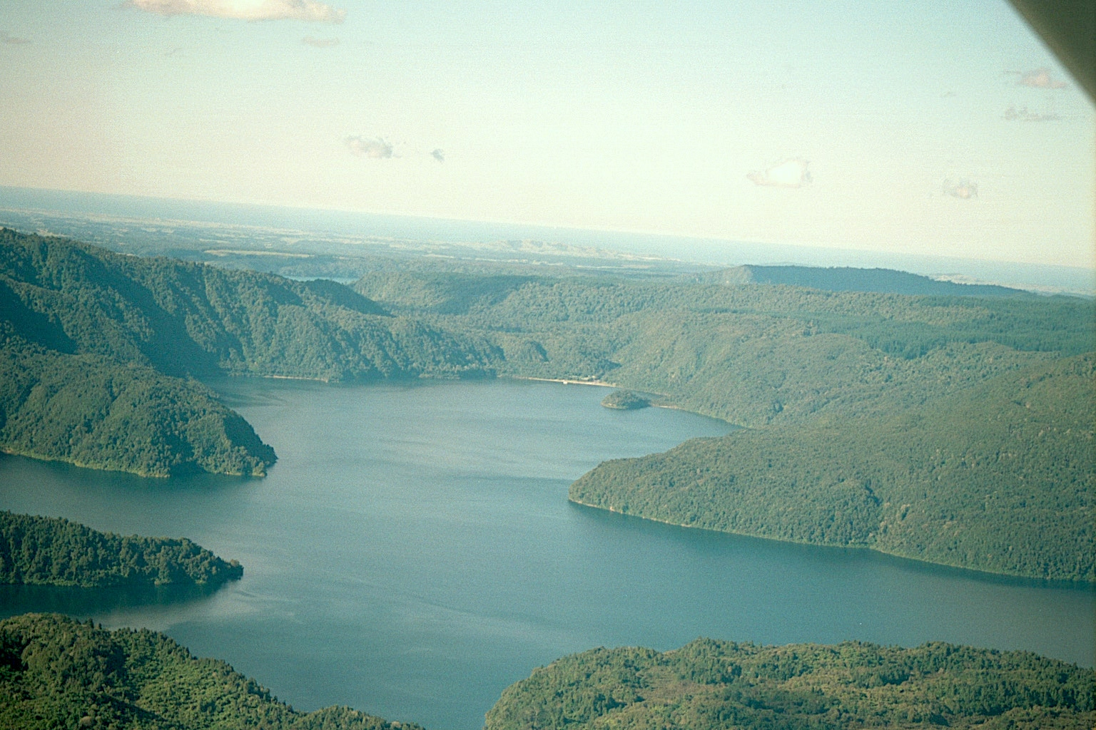 Aerial view of Lake Okataina facing north, Bay of Plenty region, North Island, New Zealand. A sliver of Lake Rotoiti can be seen in the distance. Taken during a seaplane ride from nearby Rotorua.